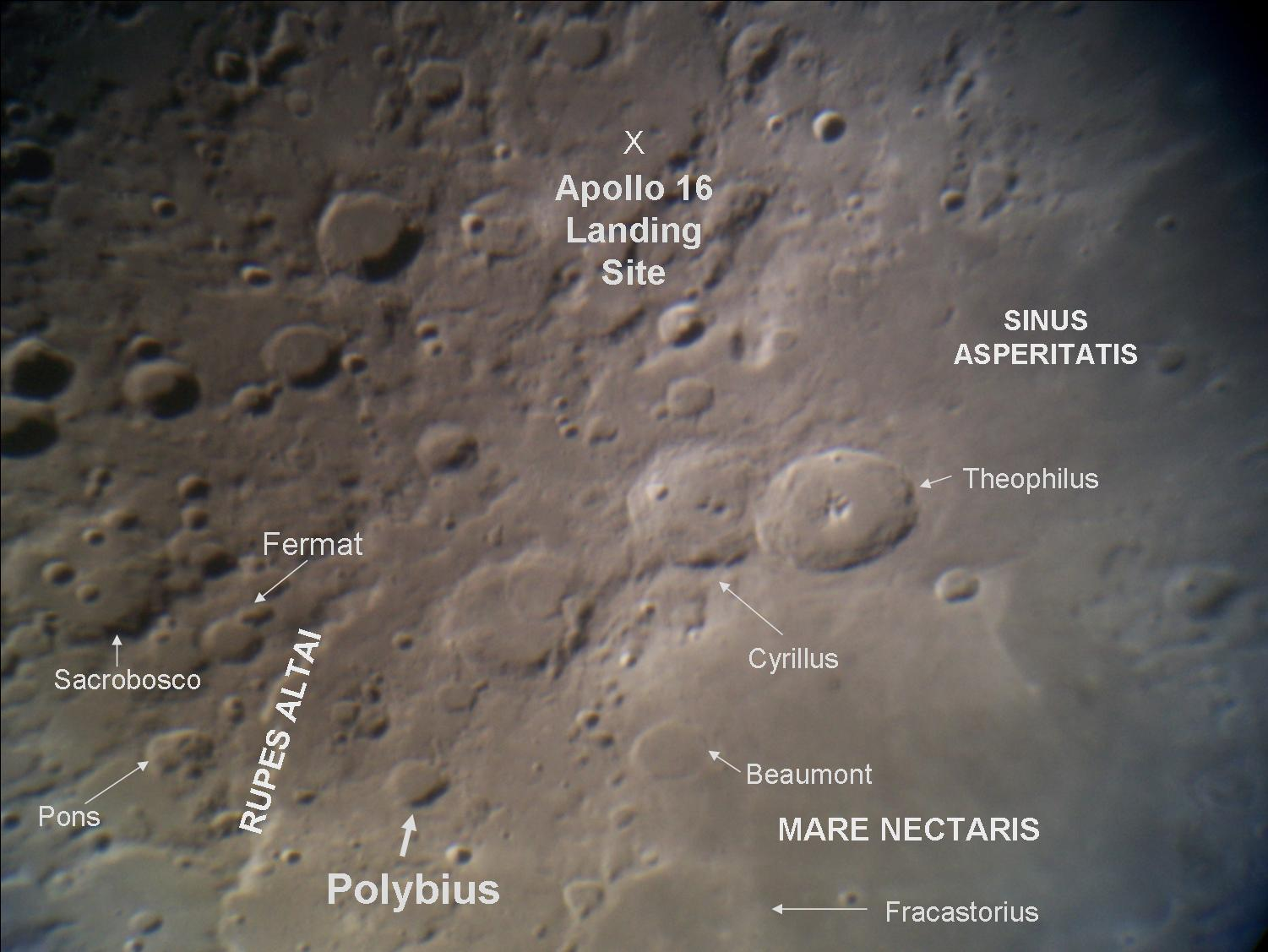 Moon Crater Polybius photographed by Eric S. Kounce of the West Texas Astronomers ( on October 28, 2006 utilizing the 36-inch Telescope at McDonald Observatory near Ft. Davis, Texas.